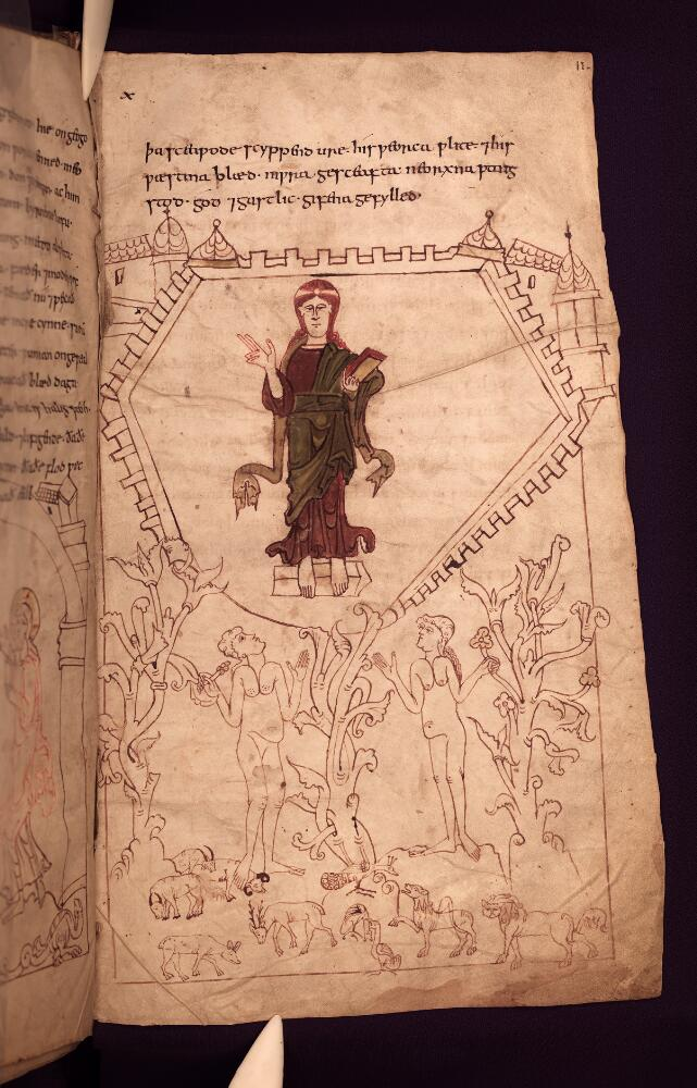 'The Cædmon Manuscript': parts of Genesis, Exodus and Daniel in Old English verse, illustrated with Anglo-Saxon drawings, c. A.D. 1000.; 11